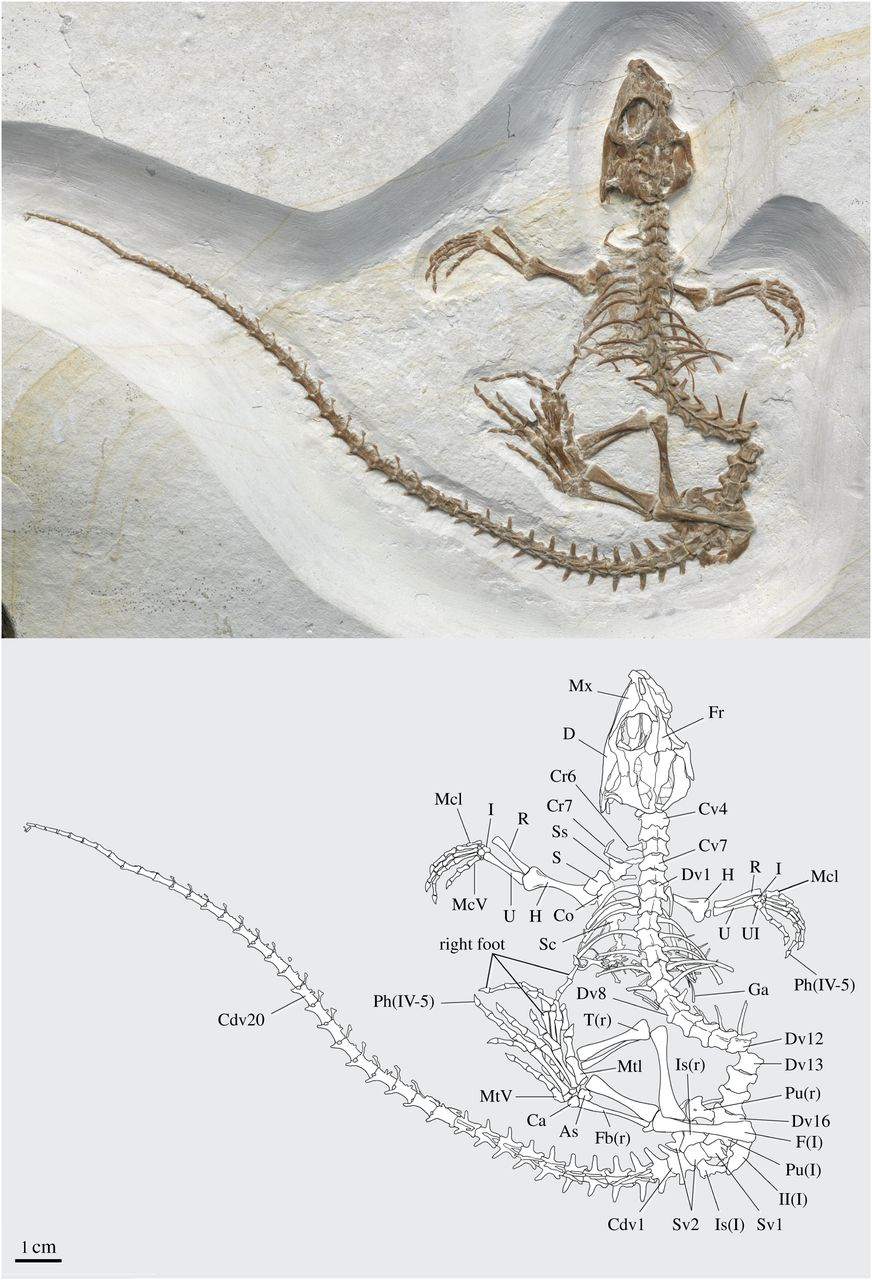 Holotype of Vadasaurus herzogi (AMNH FARB 32768) collected from the Late Jurassic marine limestones of Solnhofen, Bavaria. The skull, forelimbs, and first 18 presacral vertebrae and ribs are exposed in the dorsal or dorsolateral view. Posteriorly, the skeleton is rotated approximately 180°, making it visible largely in the ventral view. Left hindlimb is exposed in the dorsal view. Anatomical abbreviations: As, astragalus; Ca, calcaneum; Cdv, caudal vertebra; Co, coracoid; Cr, cervical rib; Cv, cervical vertebra; D, dentary; Dv, dorsal vertebra; F, femur; Fb, fibula; Fr, frontal; Ga, gastralia; H, humerus; I, intermedium; Is, ischium; l, left; Mc, metacarpal; Mt, metatarsal; Mx, maxilla; Ph, phalanx; Pu, pubis; R, radius; r, right; S, scapula; Sc, sternal cartilage; Ss, suprascapular cartilage; Sv, sacral vertebra; T, tibia; U, ulna.